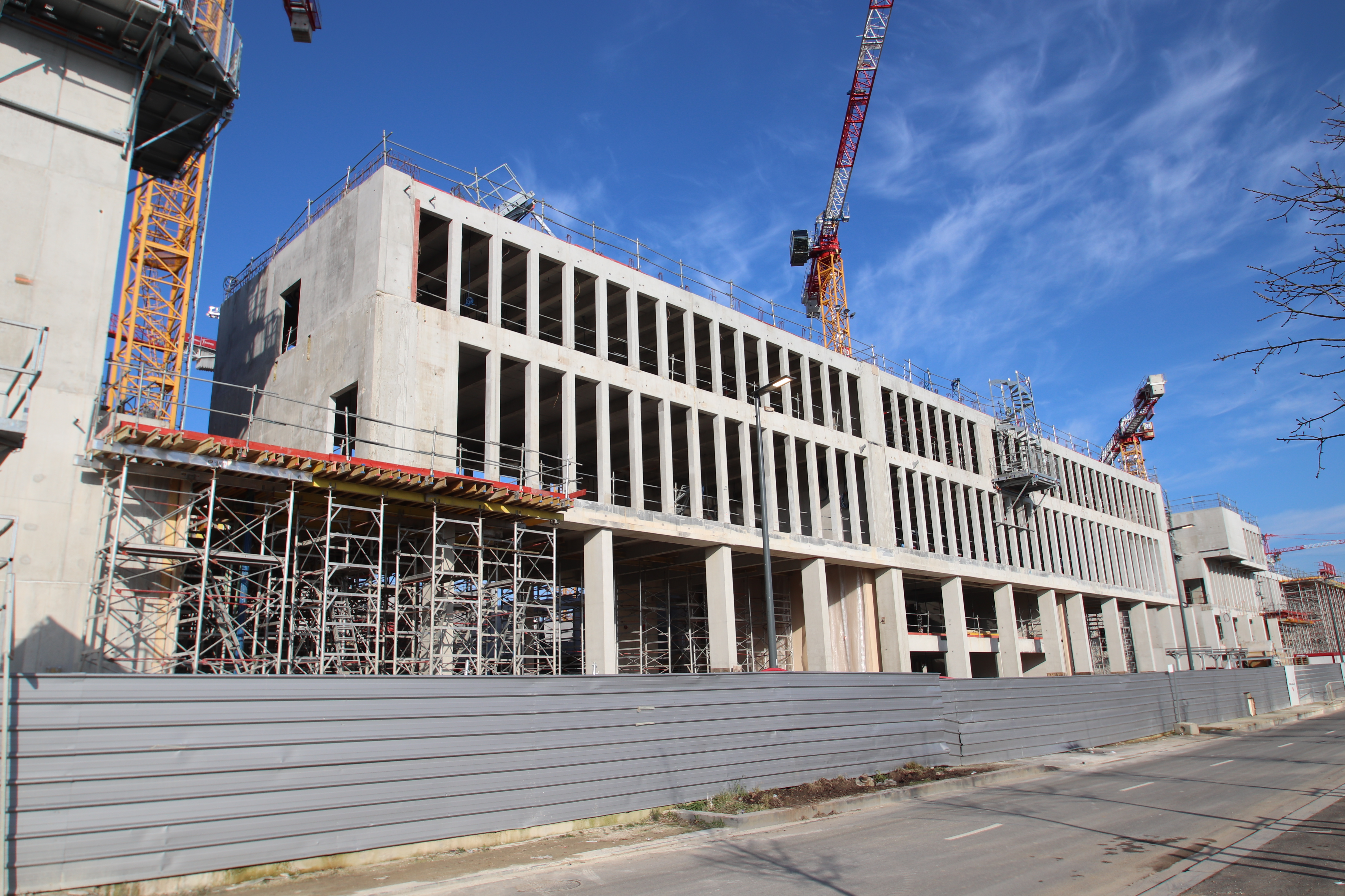 Construction site of Paris Saclay University on Vauve avenue in Palaiseau, France. Object location48° 42′ 48.24″ N, 2° 11′ 47.4″ E